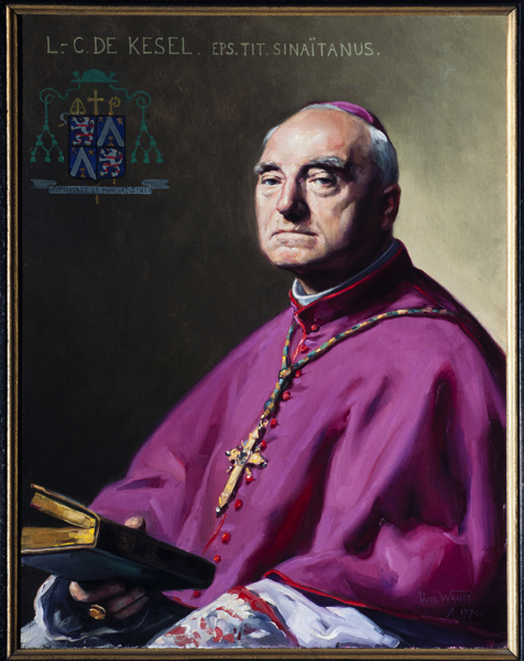 Sint-Baafskathedraal, Gent, Oost-Vlaanderen, Belgium. Cathedral collections. Portrait of bishop Leonce De Kesel. Painting. Signed Paul Wante. Oil on canvas. 1974. . Paul Wante. . © Paul M.R. Maeyaert; . Original colour transparency 6x7cm. . Cultural heritage; Cultural heritage|Monuments|Cathedral; Cultural heritage|Techniques|Painting; Europe|Belgium; Europe|Belgium|Oost-Vlaanderen; Europe|Belgium|Oost-Vlaanderen|Gent; Europe|Belgium|Oost-Vlaanderen|Gent|Sint-Baafskathedraal. . Inv 499 PORTRETTEN VAN DE BISSCHOPPEN VAN GENT, XVIde tot XXste eeuw; nrs. 1 tot 5 op paneel, de andere op doek, 70 cm x 53 cm. Leonce De Kesel Inventaris van het Kunstpatrimonium van Oost-Vlaanderen, V: Sint-Baafskathedraal, Gent; door Dr Elisabeth Dhaenens, 1965. . . Ref: PMa_001047_B_Gent_StB.jpg.